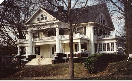 The Thomas Osment home on Walnut Street, Harrisburg, Illinois.